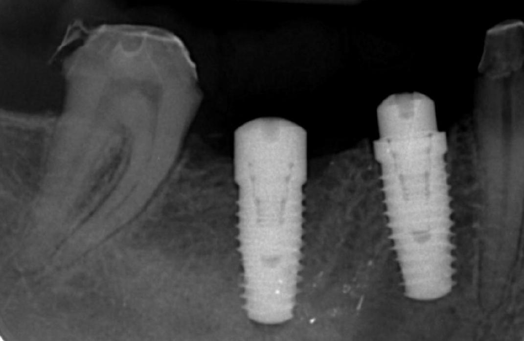 Dental radiograph depicting both platform switching and platform matching dental implants